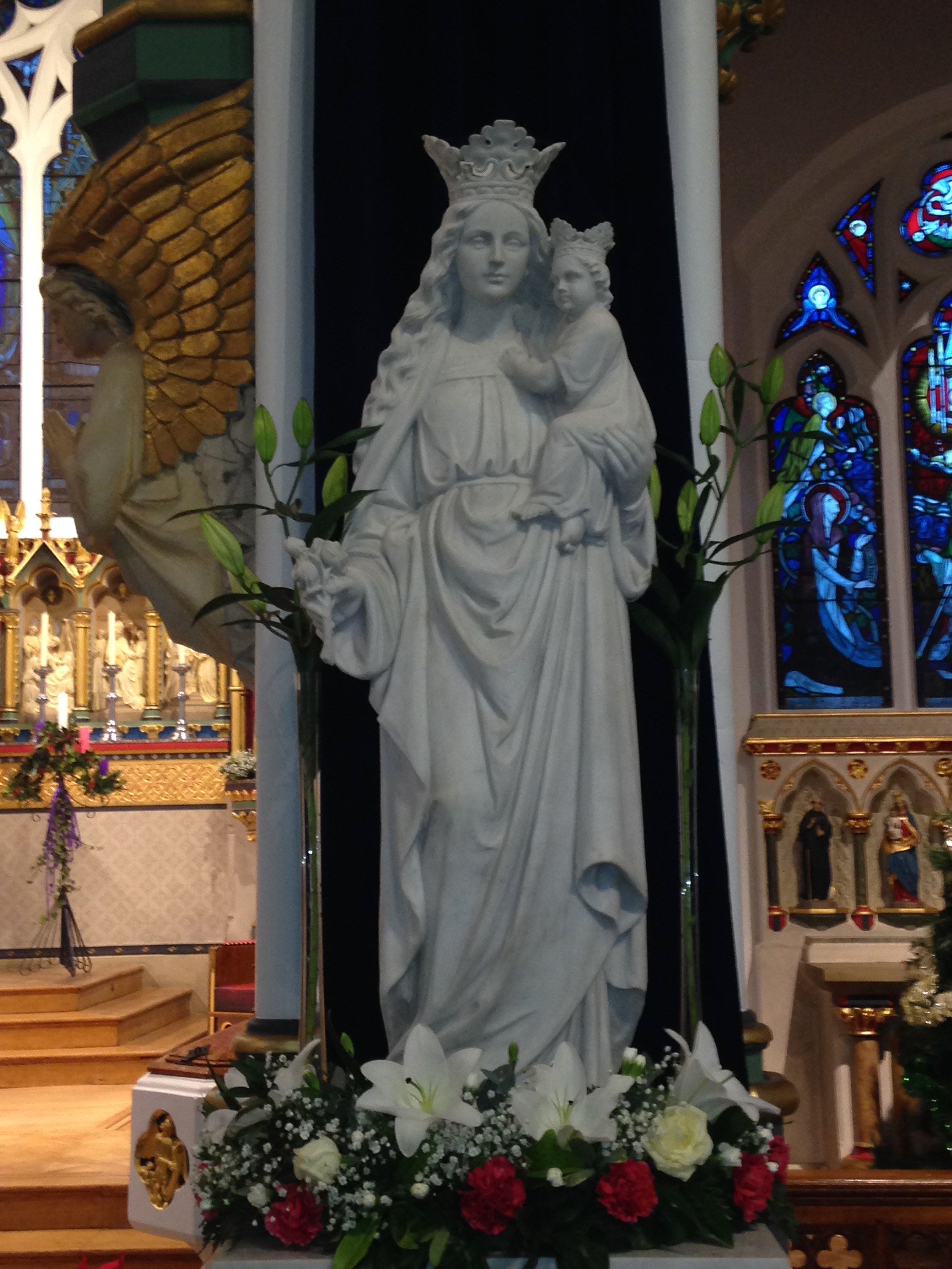 Statue of Our Lady in St Mary's Church